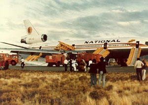 Photo of National DC-10 safe landing after incident